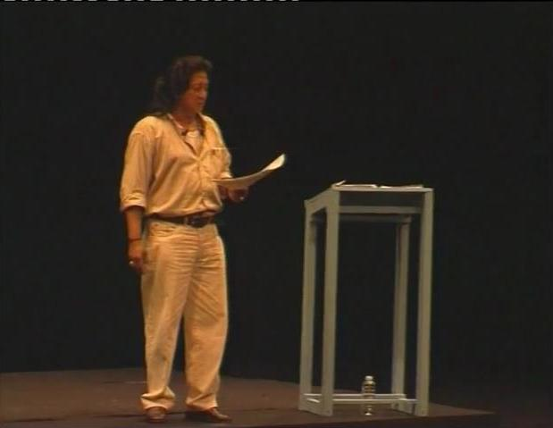 Rendra, an Indonesian poet and dramatist